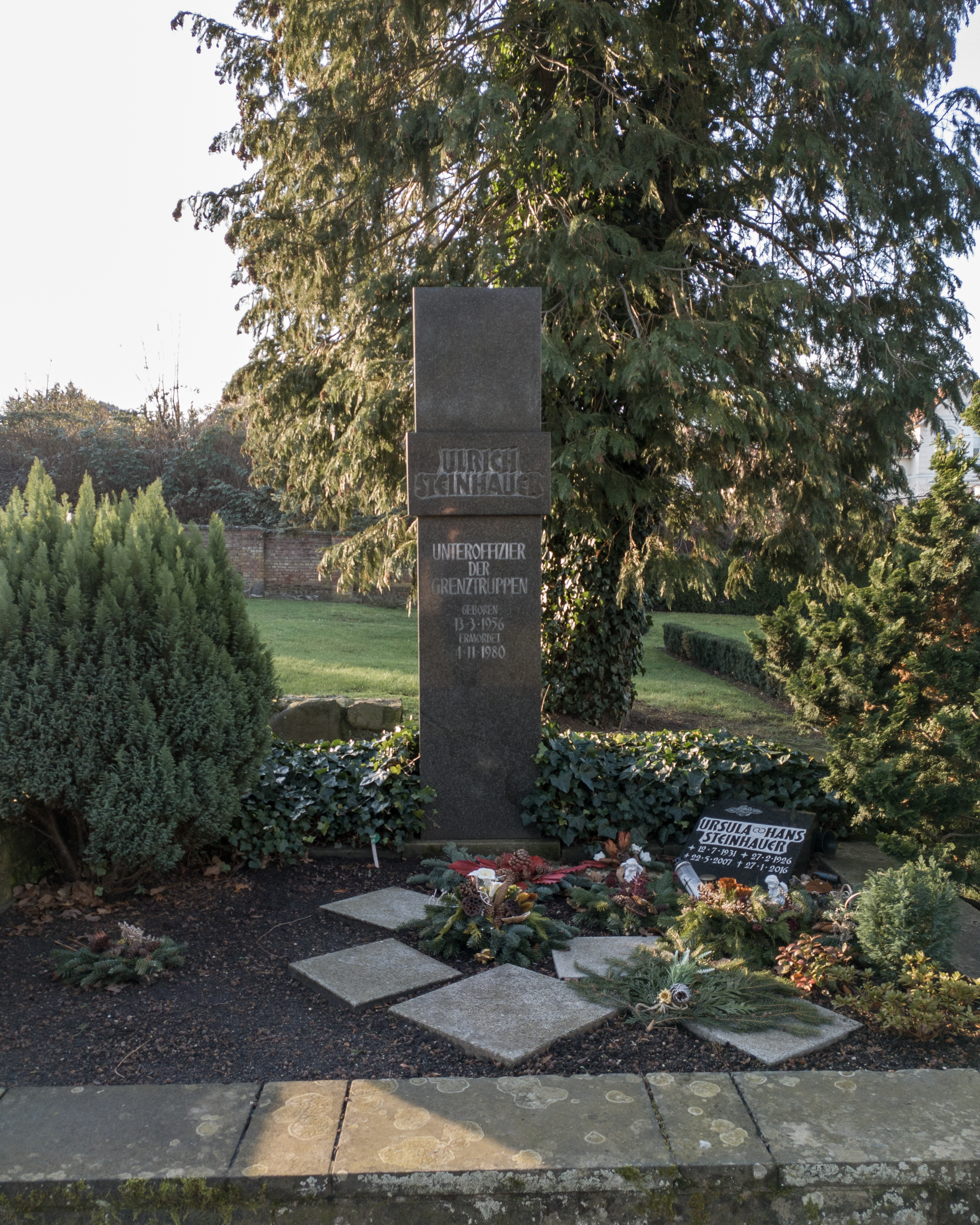 Grave of Ulrich Steinhauer in Ribnitz-Damgarten